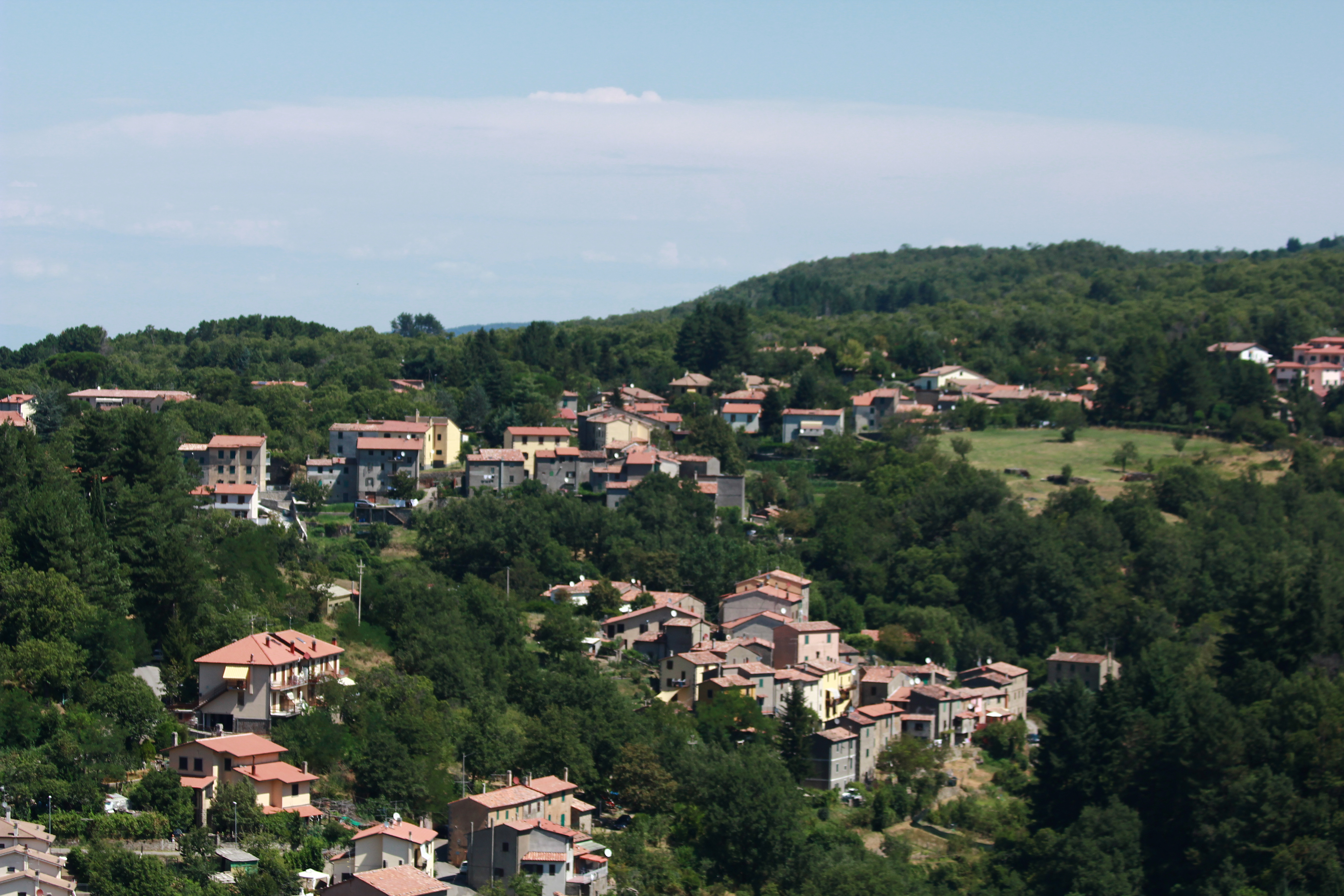 San Lorenzo and Pino, Province of Grosseto, Tuscany